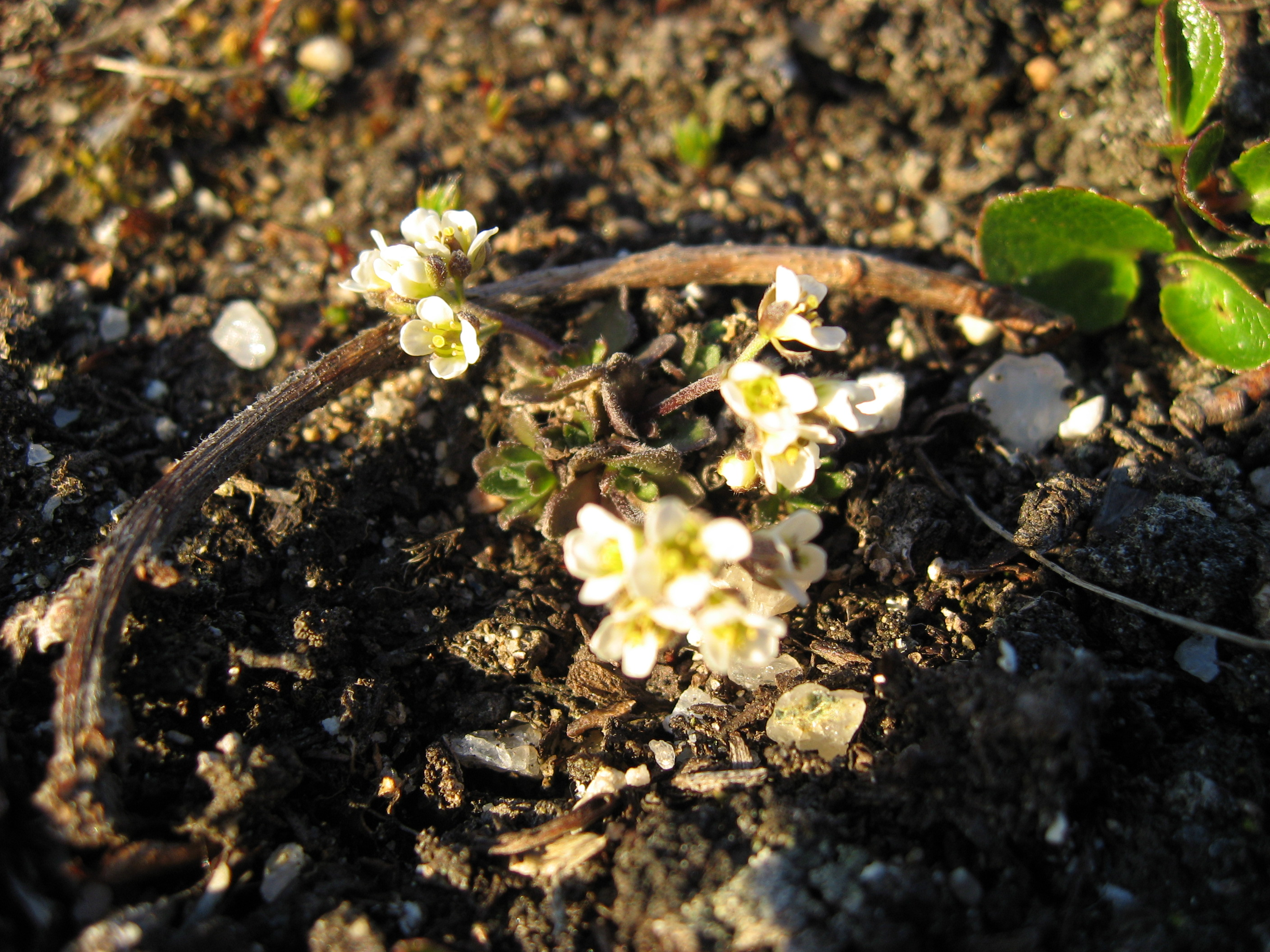 Draba nivalis (Snow Draba) photographed near Upernavik, Greenland. The plant is very small only about 15 mm high. Observed together with Vaccinium uliginosum and Cassiope tetragona. Identified by Ole B. Lyshede, lic. scient. (biology).